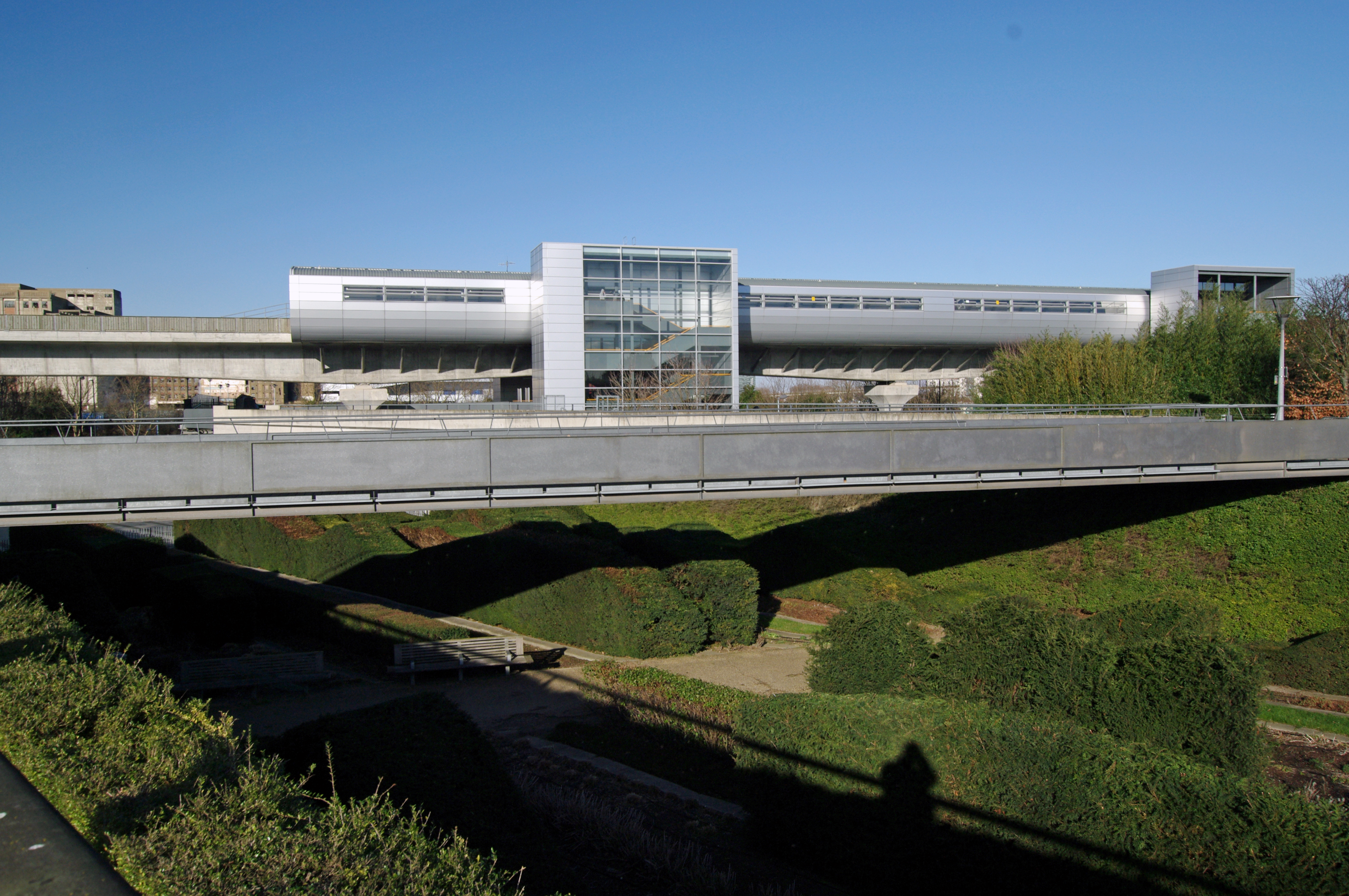 Thames Barrier Park